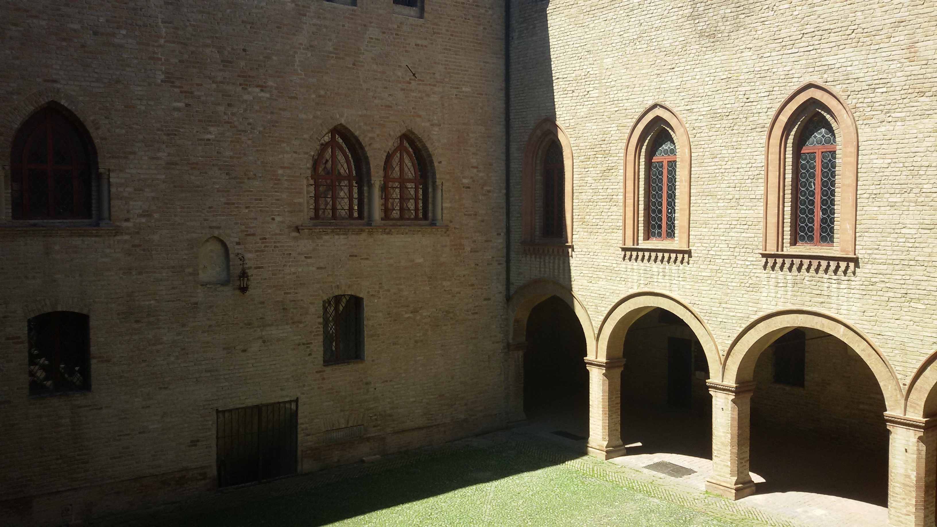 Castle Yard